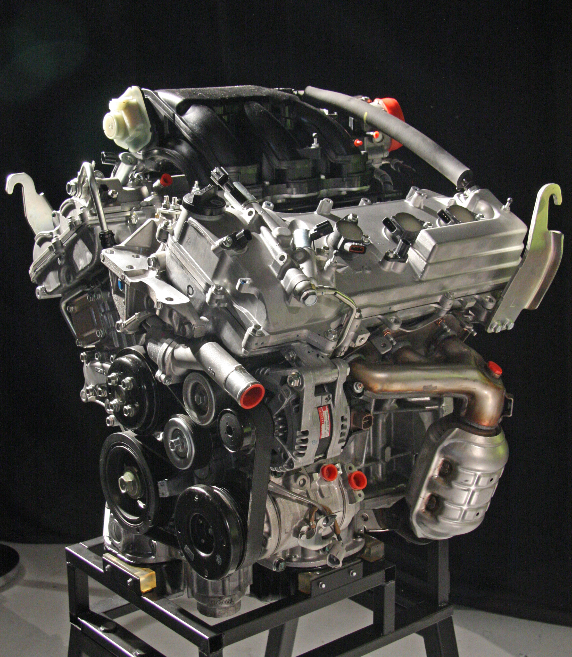 Lotus 60th Celebration